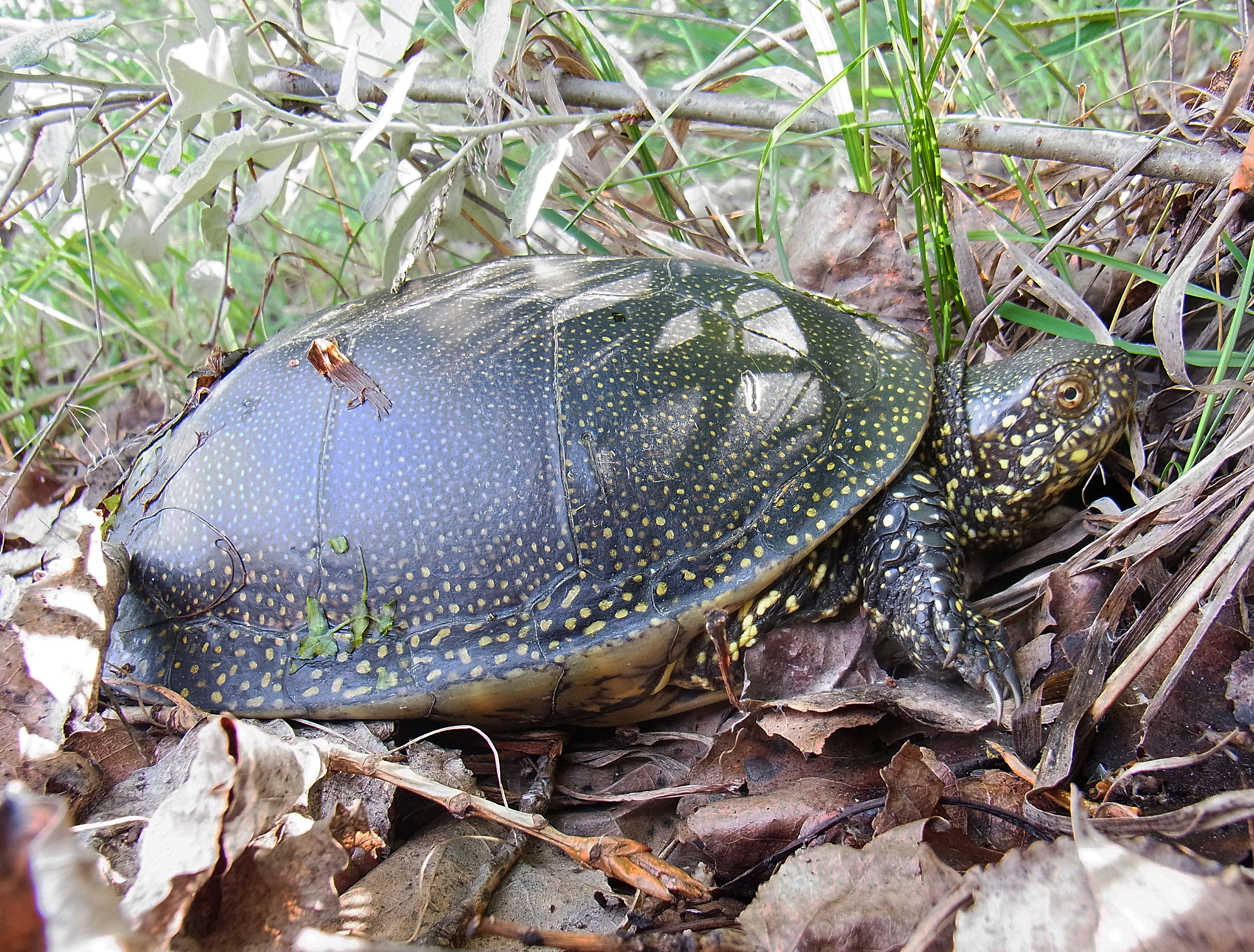 Emys orbicularis from Hungary, near lake Péteri-tó creeping on the meadow